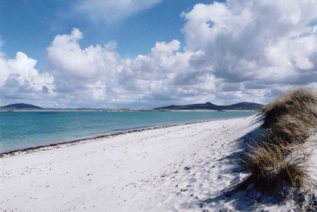 North Uist, looking along the Corran Aird a Mhorain near Solas.